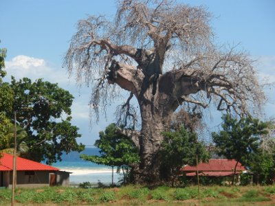 Kizimkazi Scholl View to the ocean